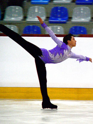 Eliot Halverson during his short program at the 2006 Junior Grand Prix event in The Hague, Netherlands